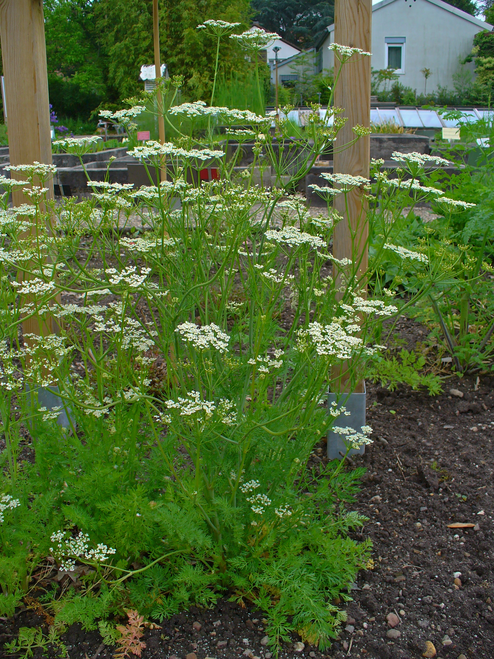 Carum carvi, Apiaceae, Caraway, Meridian Fennel, Persian Cumin, habitus; Botanical Garden KIT, Karlsruhe, Germany. The dried, ripe fruits are used in homeopathy as remedy: Carum carvi (Caru.)